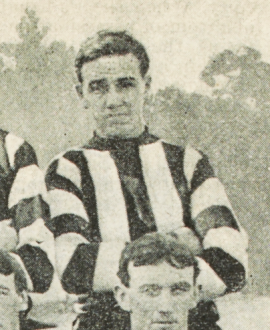 Photograph of Victor Jackson in 1912